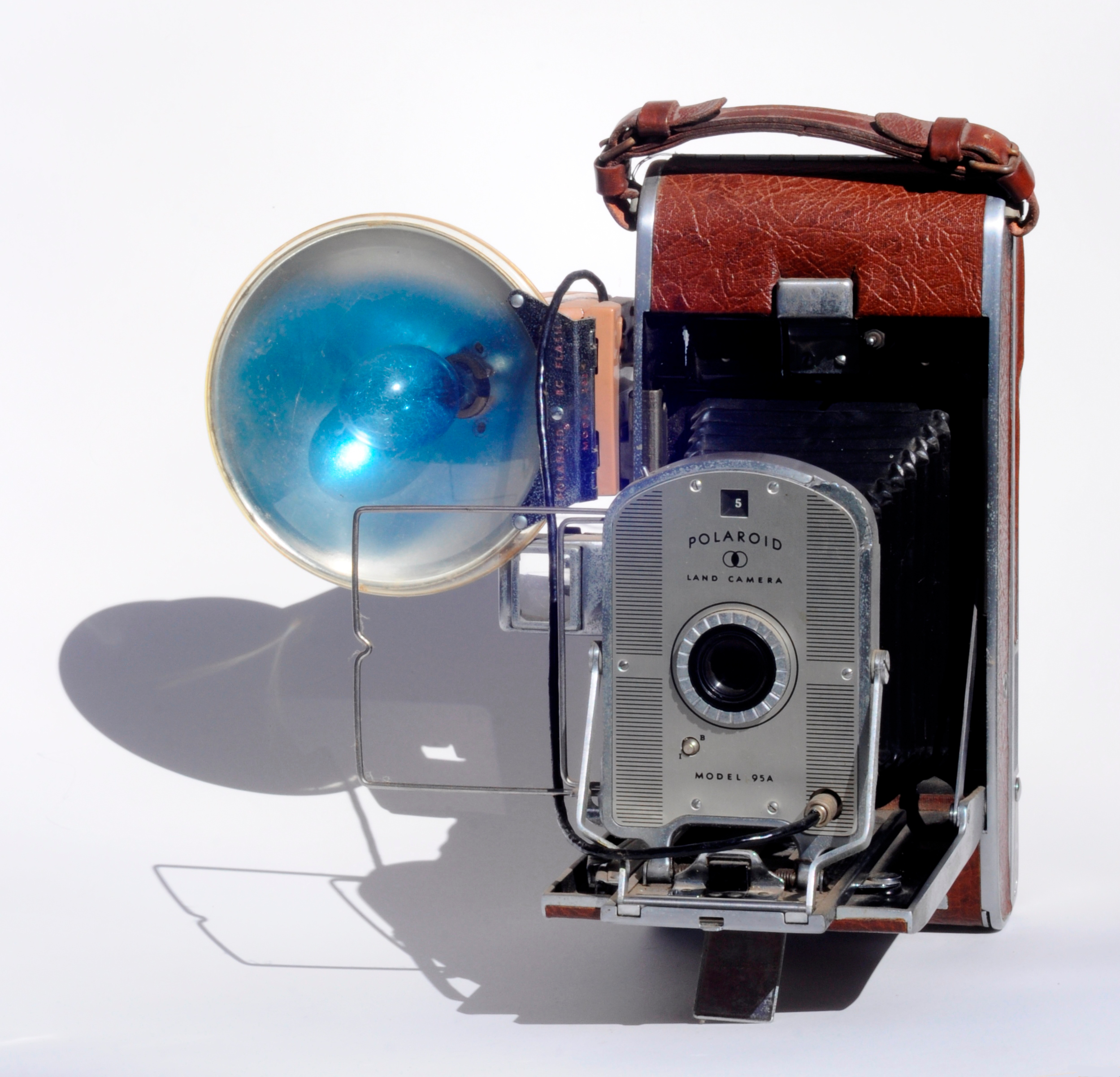 Polaroid Land Camera Model 95A from my collection.